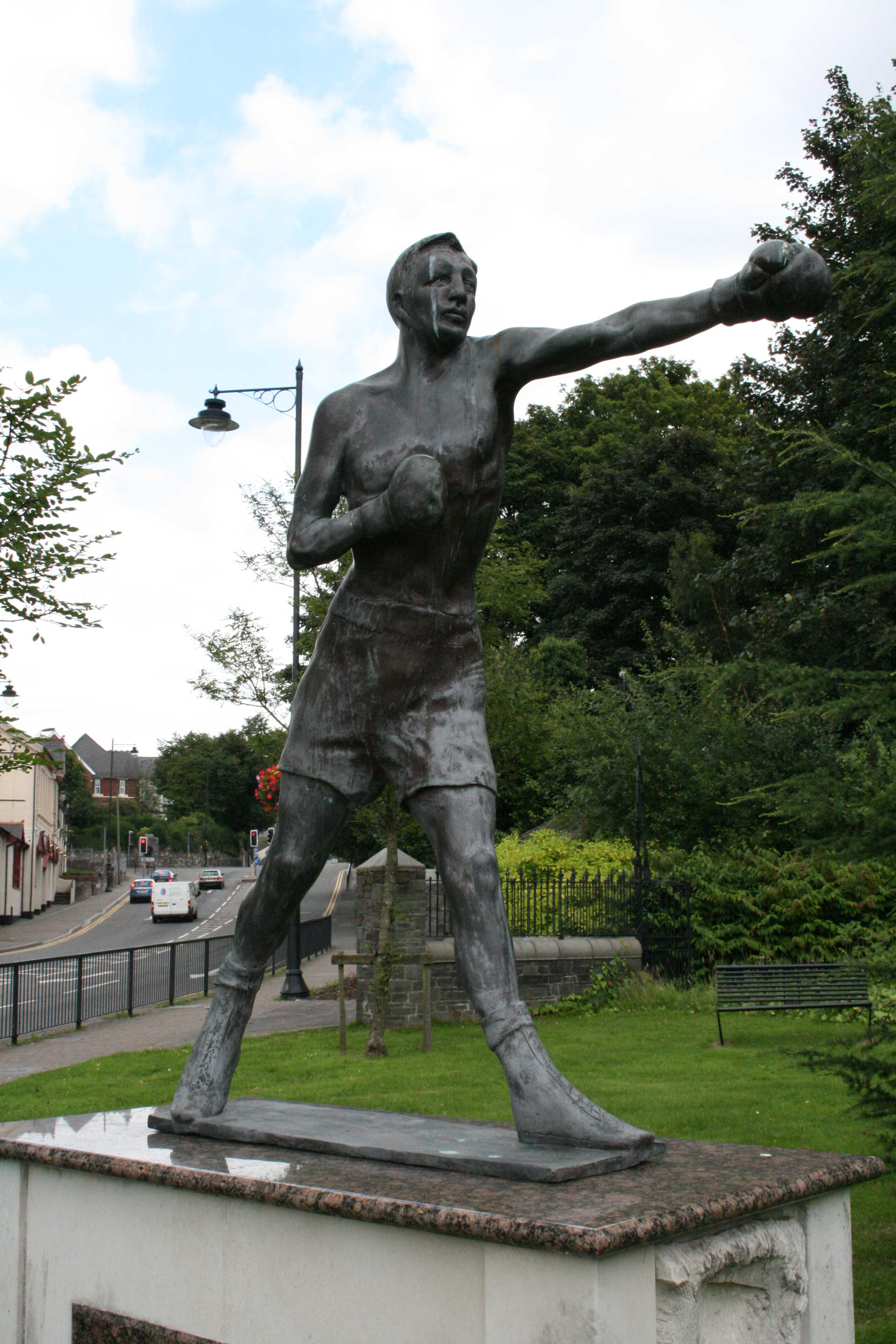 Sculpture of Eddie Thomas, Merthyr boxer, situated in Bethesda Gardens, Merthyr Tydfil